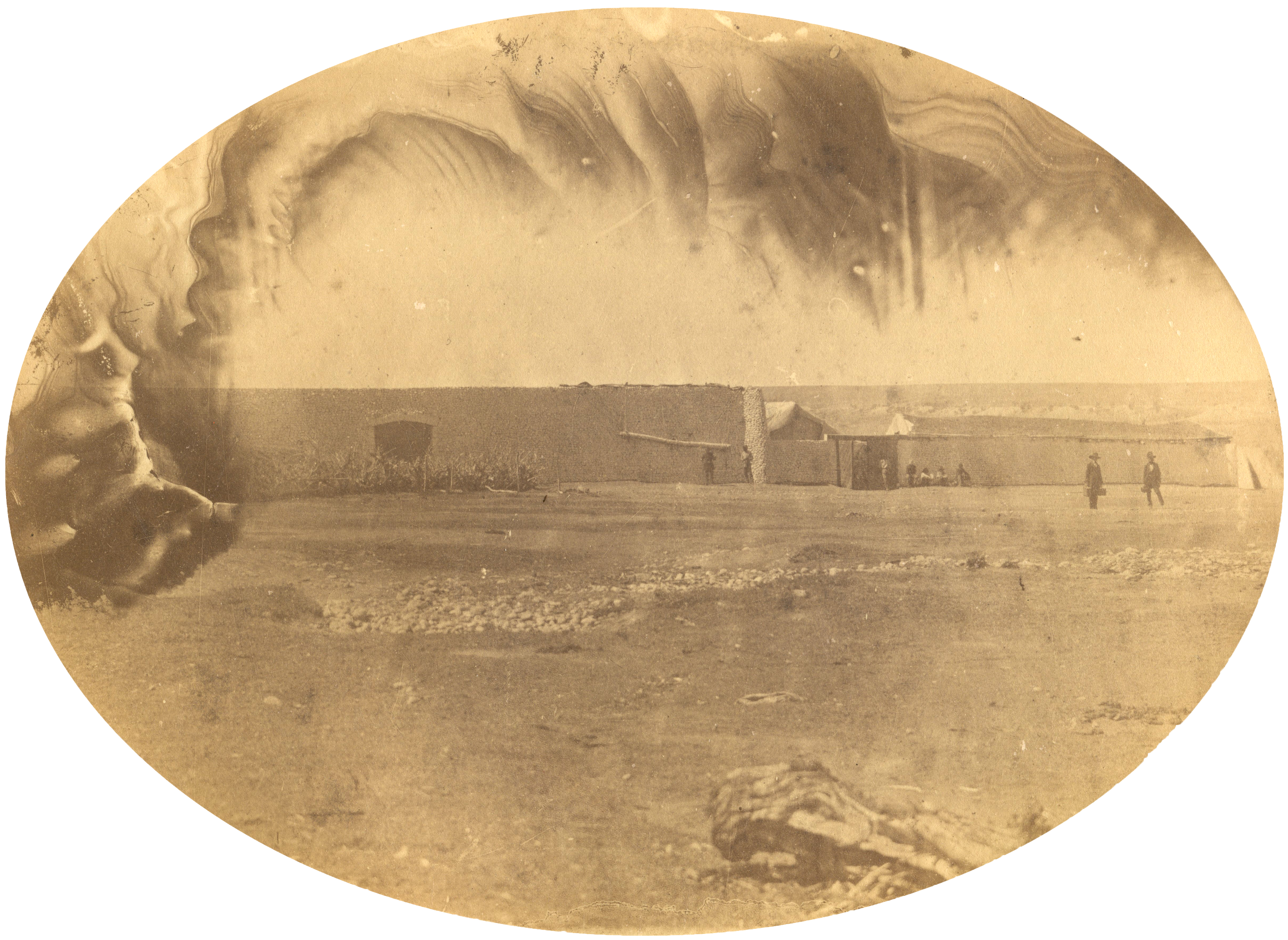 A view of Fort Bridger in Utah Territory (present-day Wyoming). The photograph was taken in 1858 during Captain James H. Simpson's "Utah Expedition." It shows the fort after it was taken over by the United States Army having been burned and abandoned by the area's Mormon settlers.